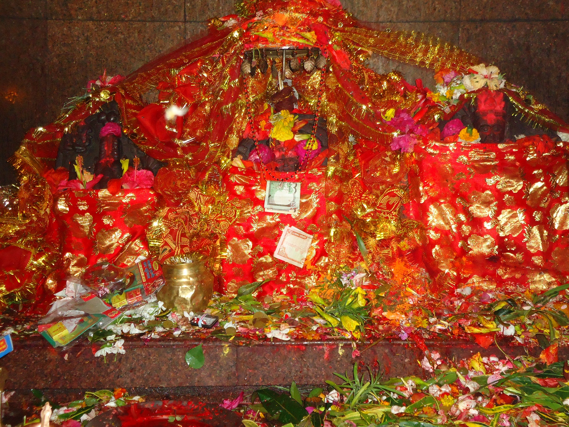 Gadhimai Temple is a temple of the sacred goddesses of power, in Hindu religion. The temple is situated in Gadhimai Municipality in Bara District of mid-north Nepal.